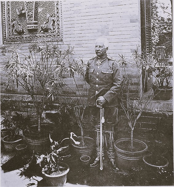 Alfred Graf von Waldersee portrayed in China by Germany's ambassador in Beijing Alfons von Mumm during the Boxer Rebellion